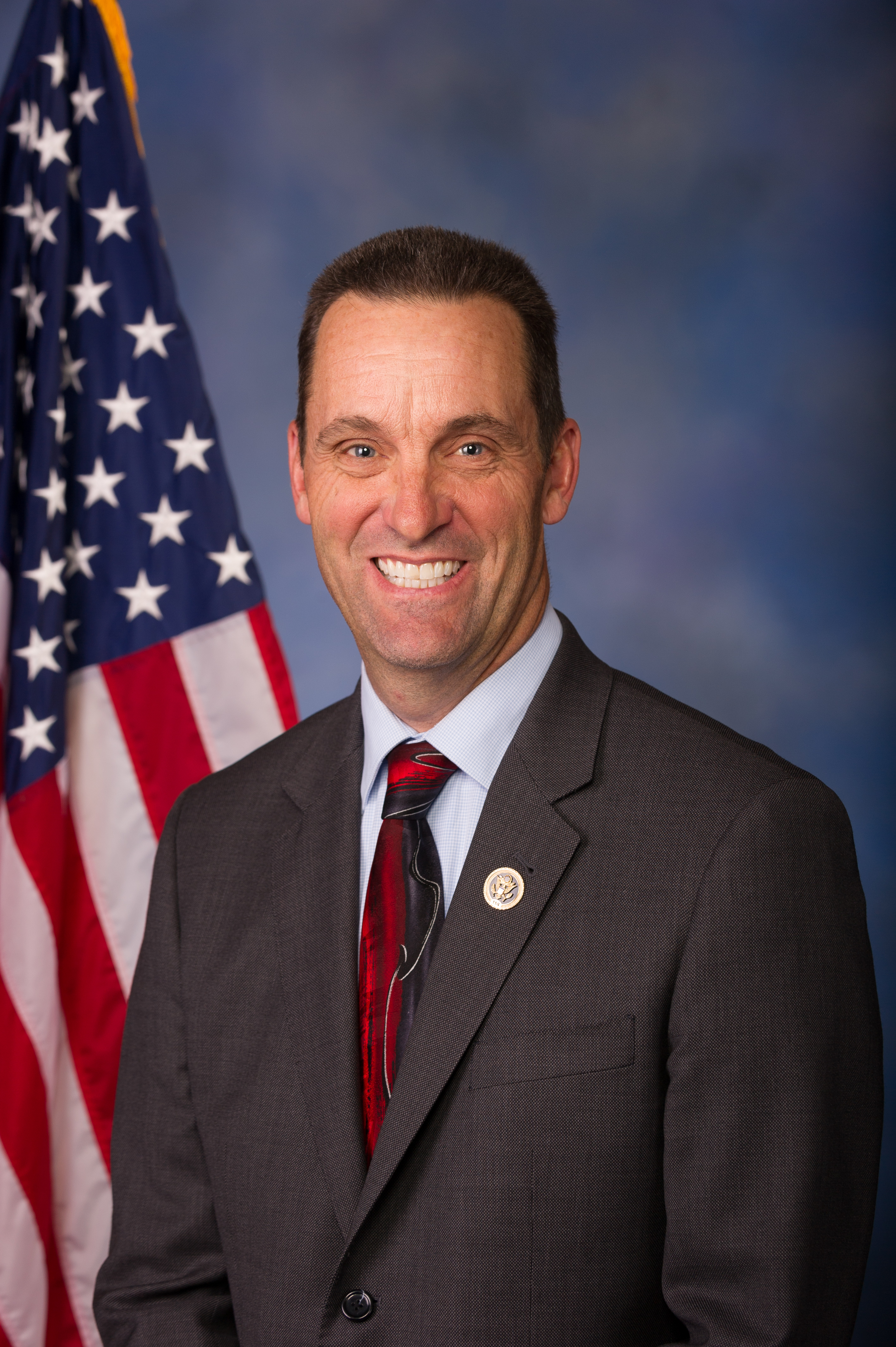 Steve Knight official portrait, 114th Congress